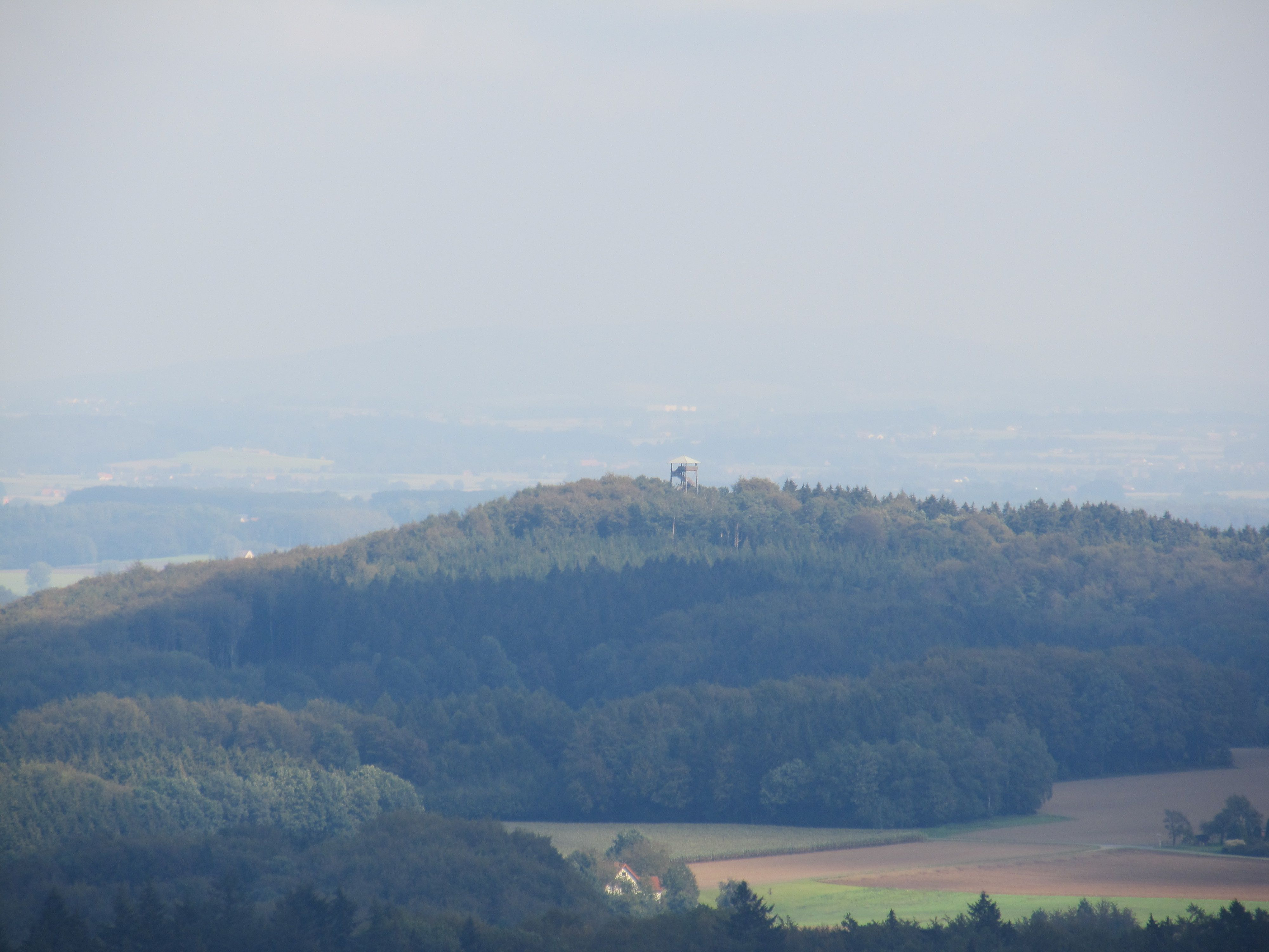 Teutoburg Forest: Hill Beutling with look-out